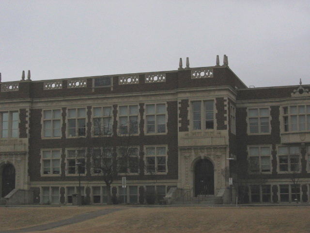 University of Alberta